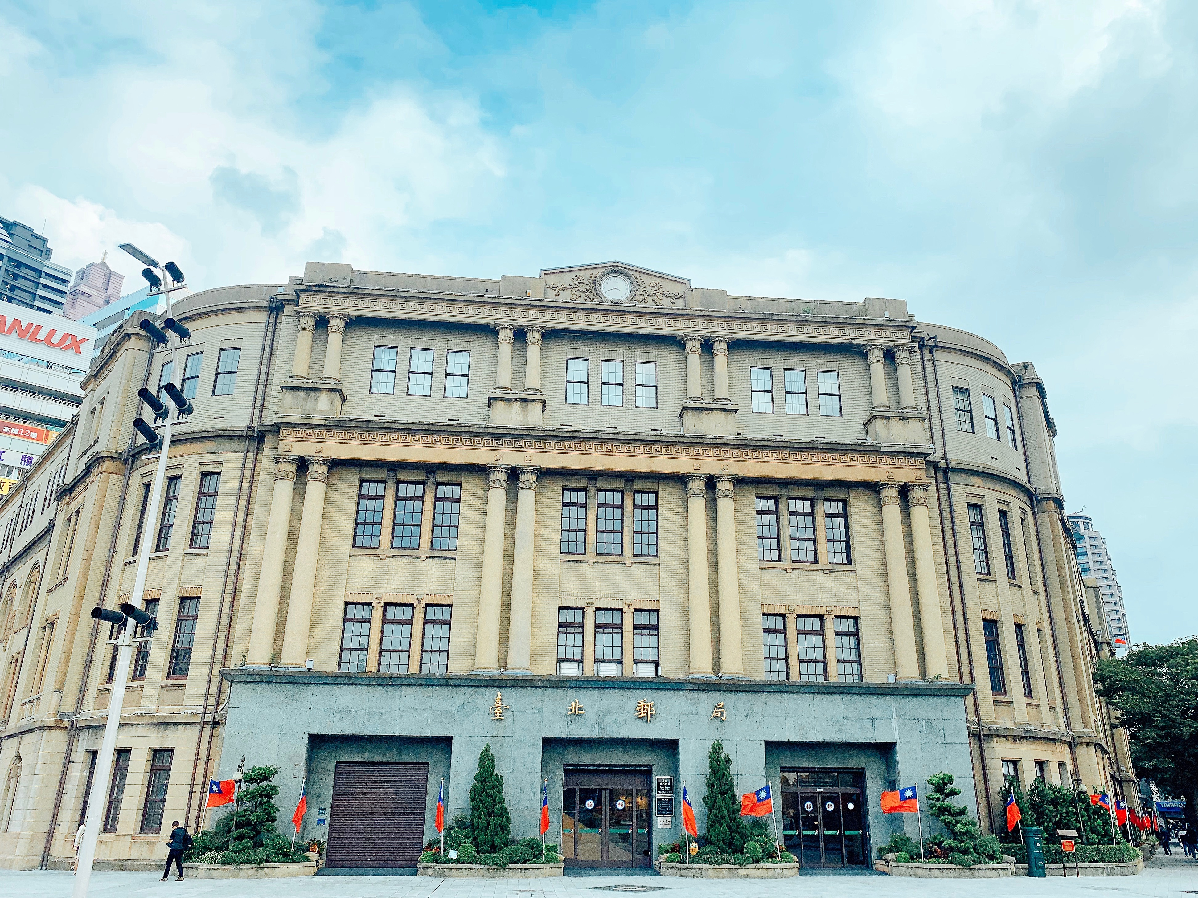 Taipei Post Office front view